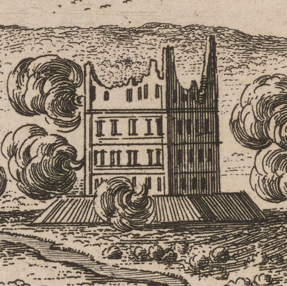 Royal Castle in Piotrków Trybunalski in 1657 (from image by Erik Dahlbergh).